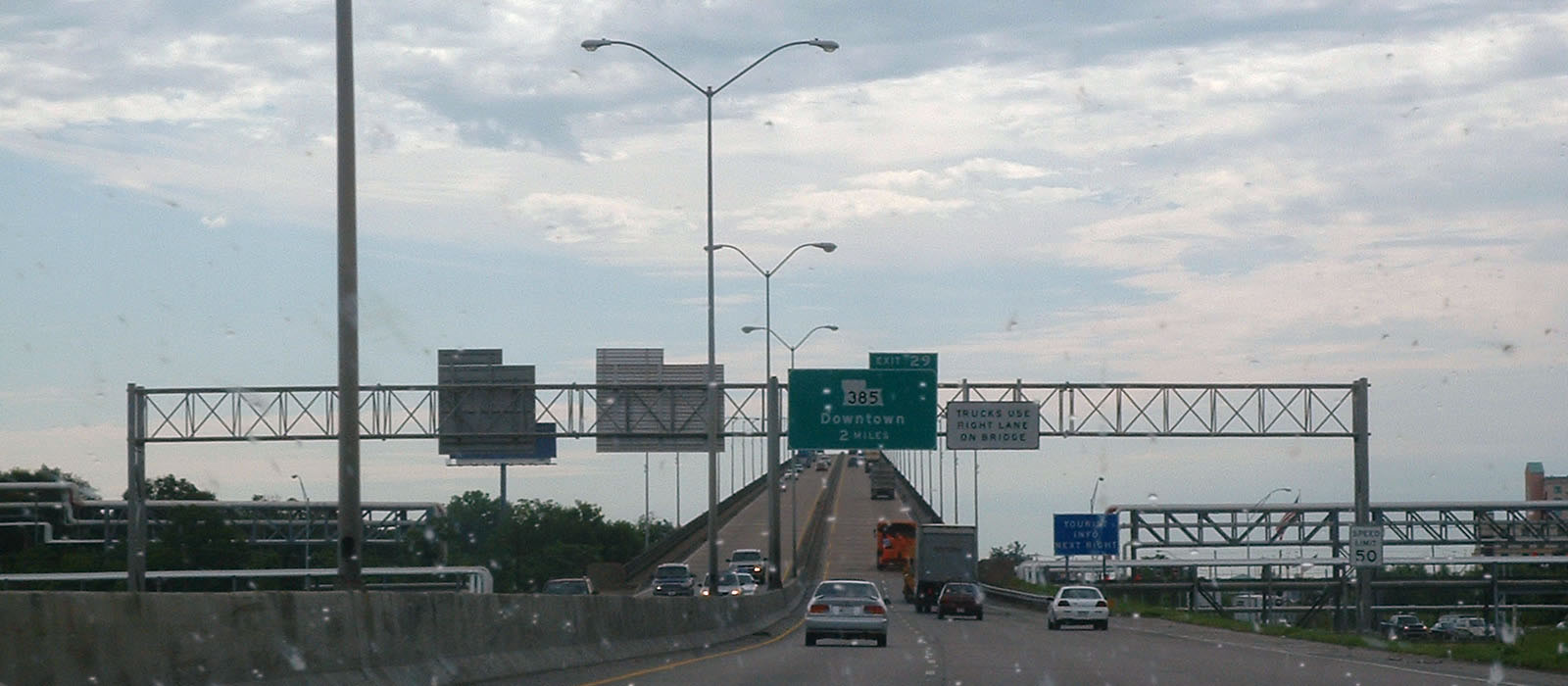 Interstate 10 Bridge Crossing Prien Lake in Lake Charles